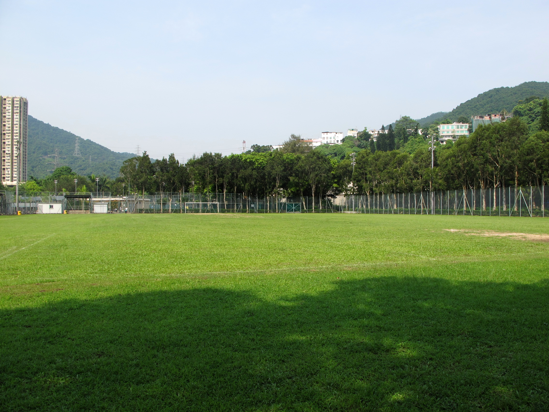 11-A-side Soccer Pitch in Hin Tin Playground